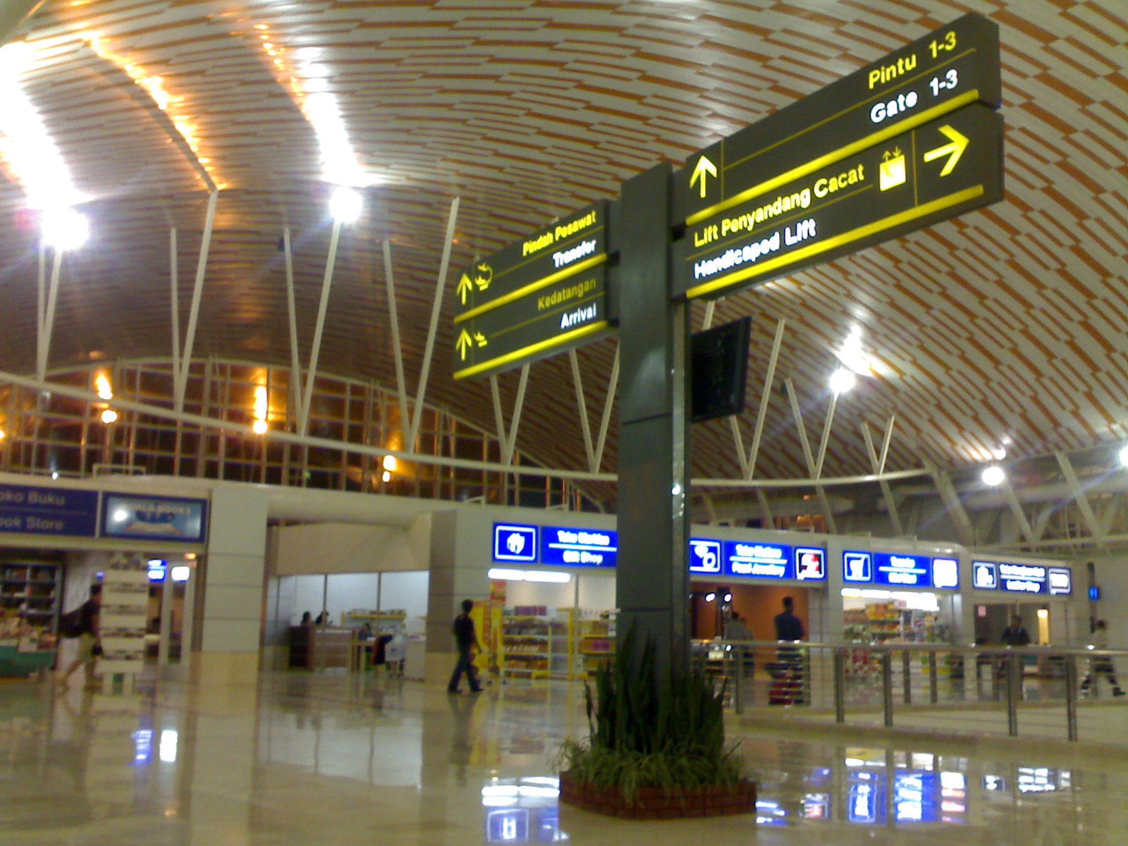 Sultan Hasanuddin International Airport